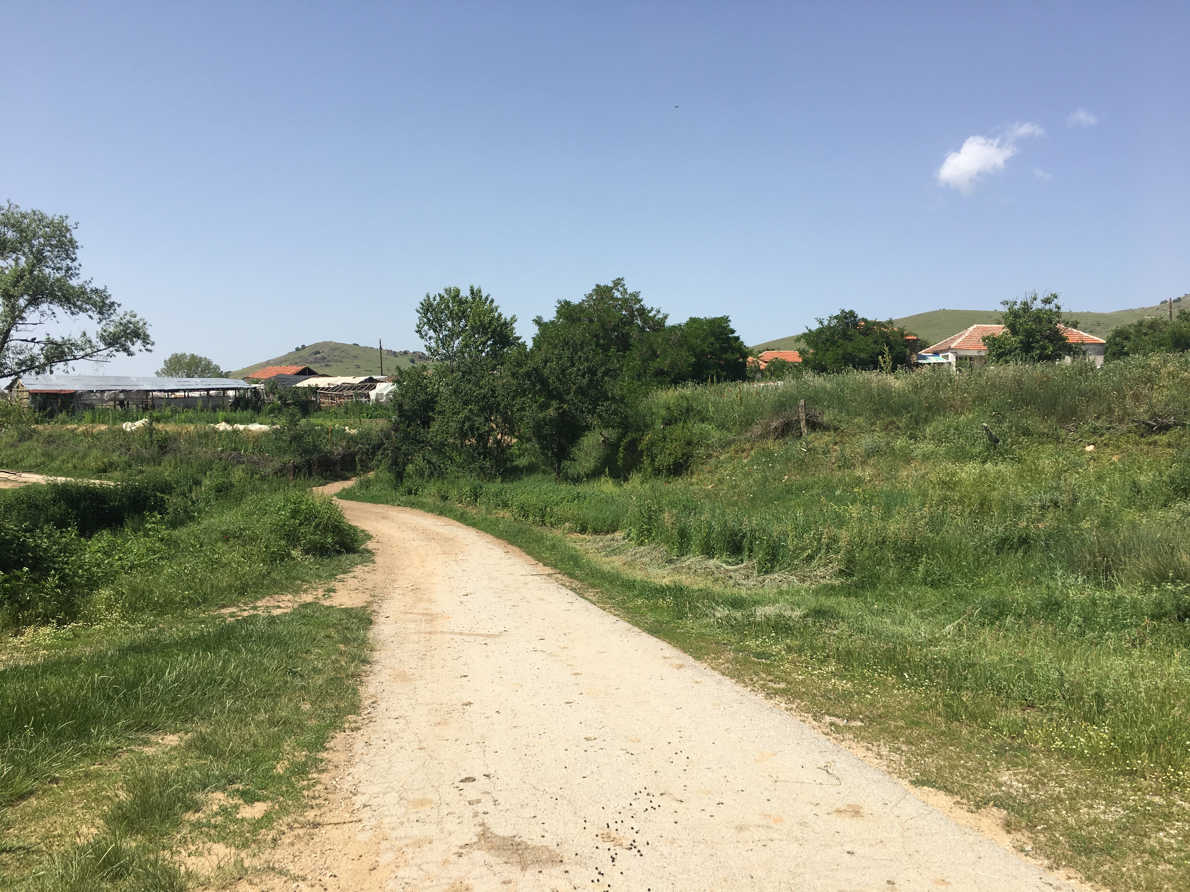 A view of the village of Mojno